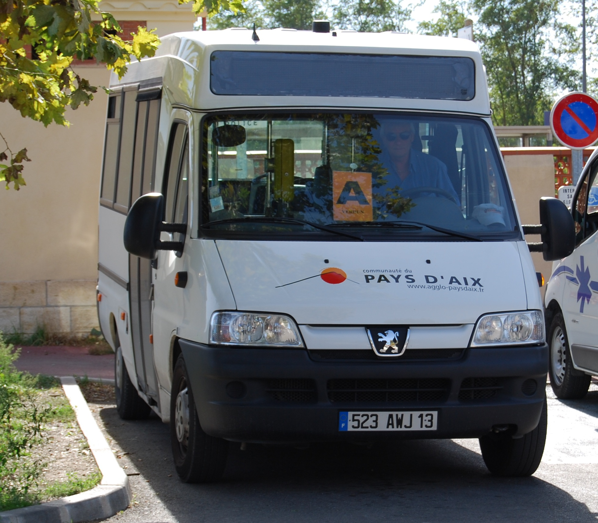 Peugeot Boxer Mk1 minibus in Pertuis, France.